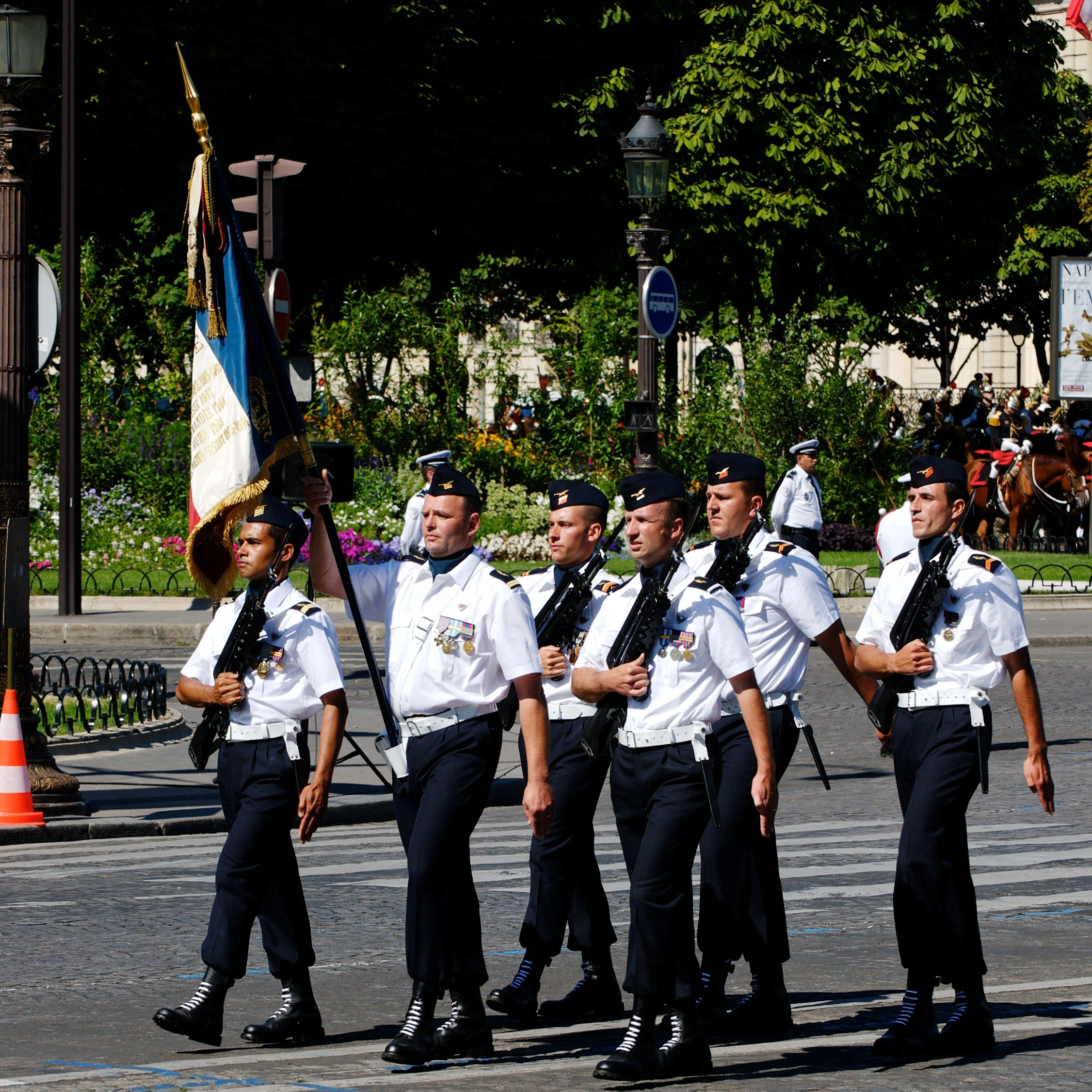 Colour guard of the Bordeaux-Mérignac Air Base (BA 106), Bastille Day 2008 military parade on the Champs-Élysées, Paris.